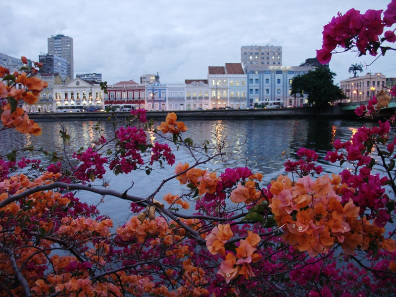 Aurora Street - Recife - Pernambuco - Brazil